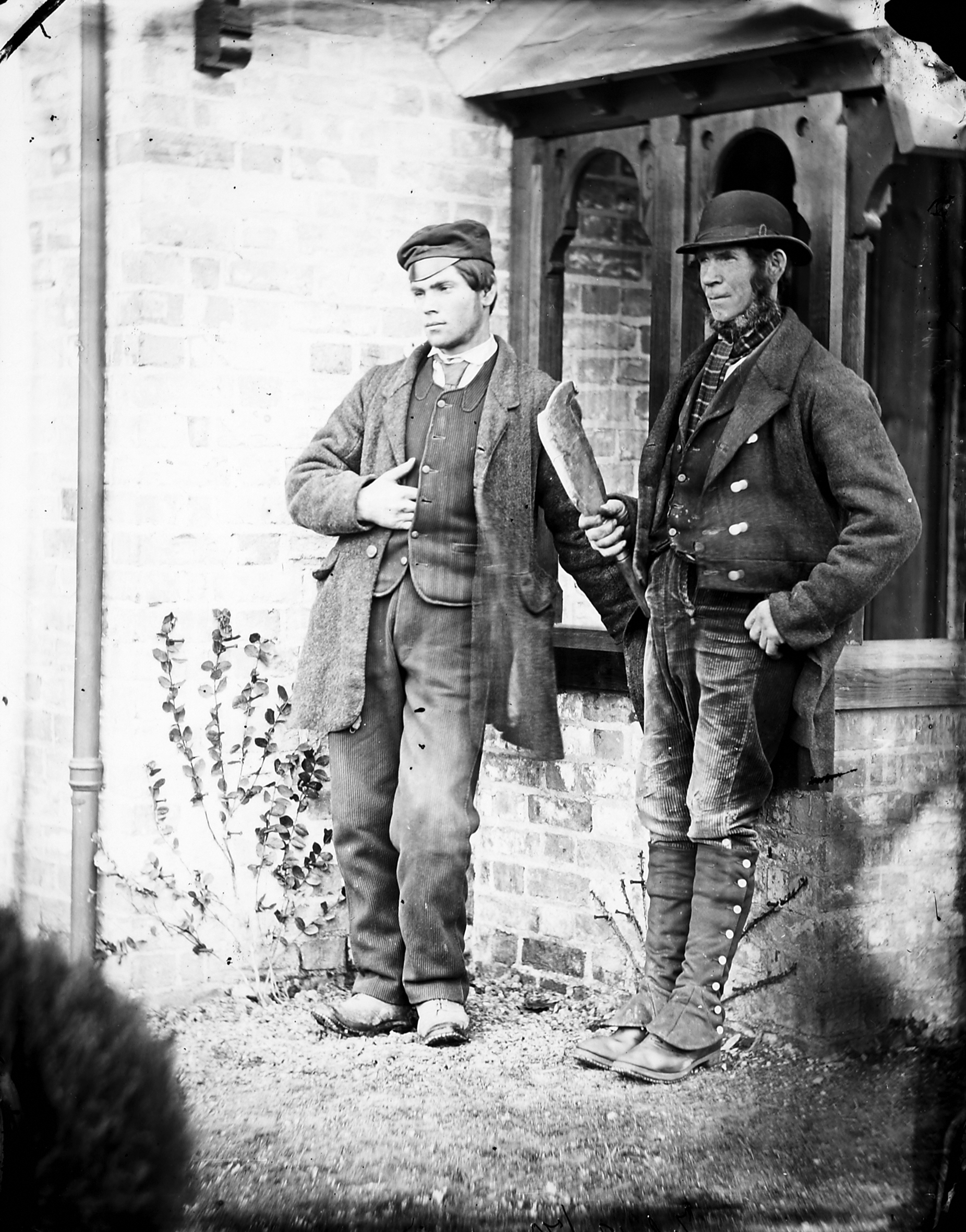 Two workmen on the Clonbrock Estate, Ahascragh, Co. Galway. Thanks to Robert Riddell for identifying the building as the Photograph or Photographic House at Clonbrock. Thanks also to mickyman13 for identifying the implement the chap on the right is holding as a Billhook. Date: Saturday, 12 February 1870 NLI Ref.: CLON472